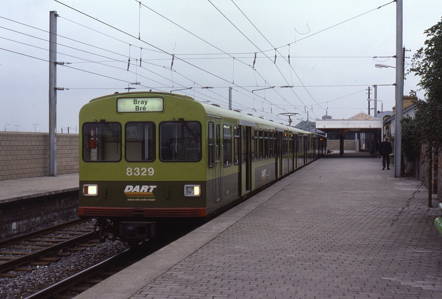 Seen at the terminus station of Howth, Dublin Area Rapid Transit (DART) class 8100 EMU no. 8139/8329 on 19 October 1985 on the 11:40 service to Bray. The DART system was created a year before this photo was taken, initially from the electrification of Howth to Bray, though has since been expanded.